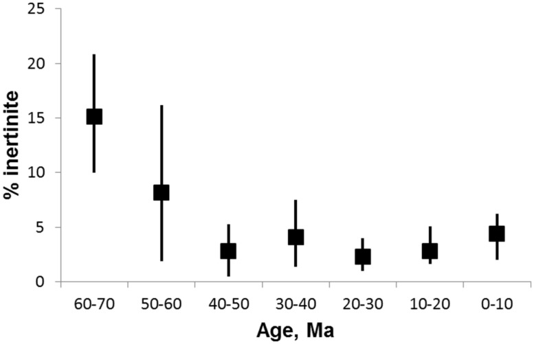 Inertinite abundance from the Late Cretaceous through the Cenozoic (65 to 0 Ma). Inertinite is the fossil charcoal content of coal. Data from Glasspool and Scott (2010), Supplementary Table S2. The median (squares) and upper and lower quartile values for each age bin are shown.